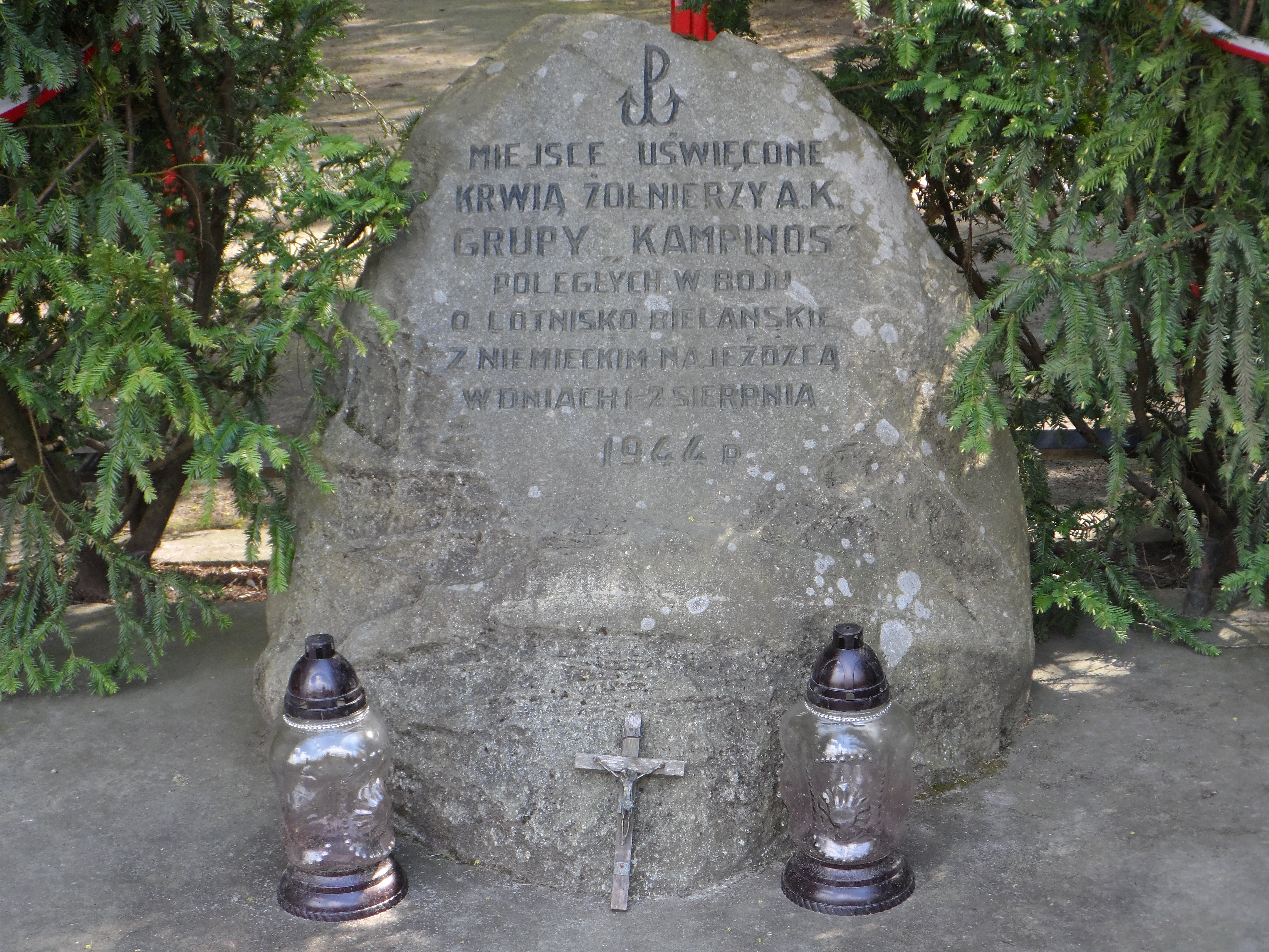 Monument at 10 Michaliny Street in Warsaw, located at the edge of the Młociny Forest, comemorating soldiers of the Kampinos Group of the Polish Home Army who fell during the failed assault on Bielany Airport (1-2 August 1944 – first days of Warsaw Uprising).